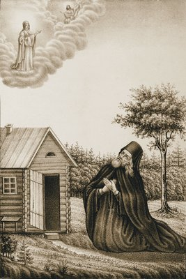 Joasaph